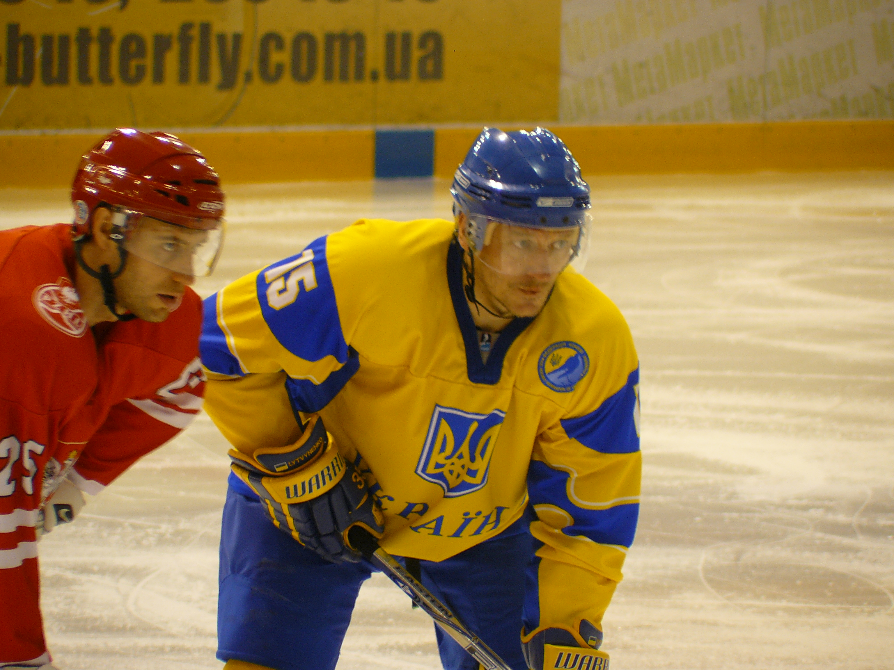 Forwards Marcin Jaros #25 of Poland (left) and Vitaliy Lytvynenko #15 of the Ukraine (right) during the friendly game against the Poland on April 9, 2010 at the Terminal Arena in Brovary, Ukraine. Ukraine won the game 5:1. Forward Marcin Jaros #25 of the Poland stands on the left